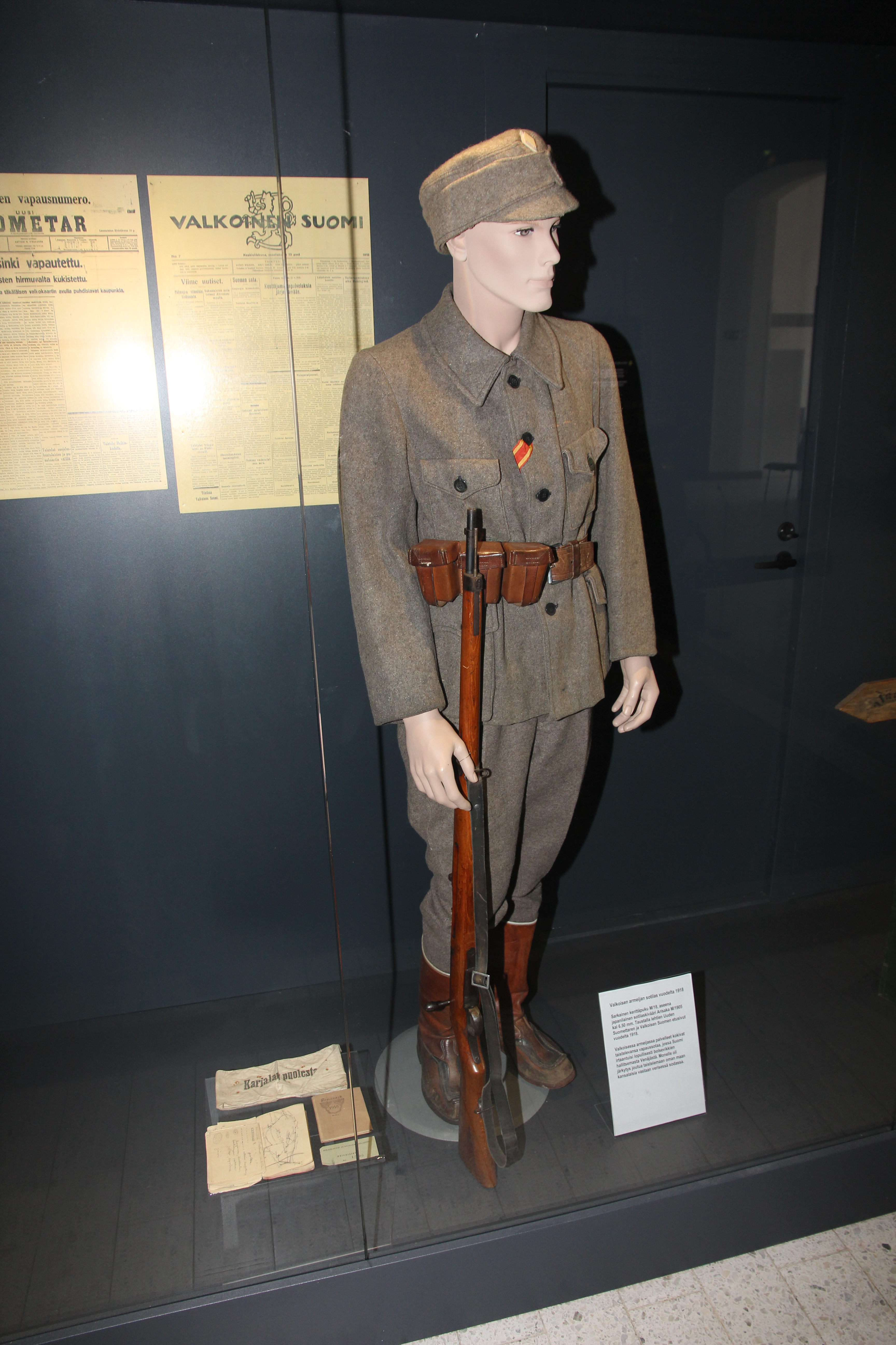 Finnish civil war white guard soldier from 1918. M/18 field uniform and japanese 6.5 mm Arisaka M/1905 (type 38) rifle.